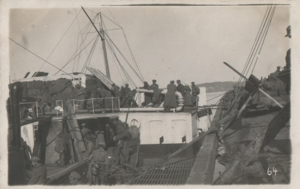 Retreat of Komuch-troops from Kazan.